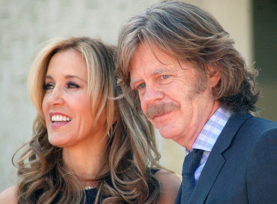 Felicity Huffman and William H. Macy at a ceremony for Huffman and Macy to receive a star on the Hollywood Walk of Fame.